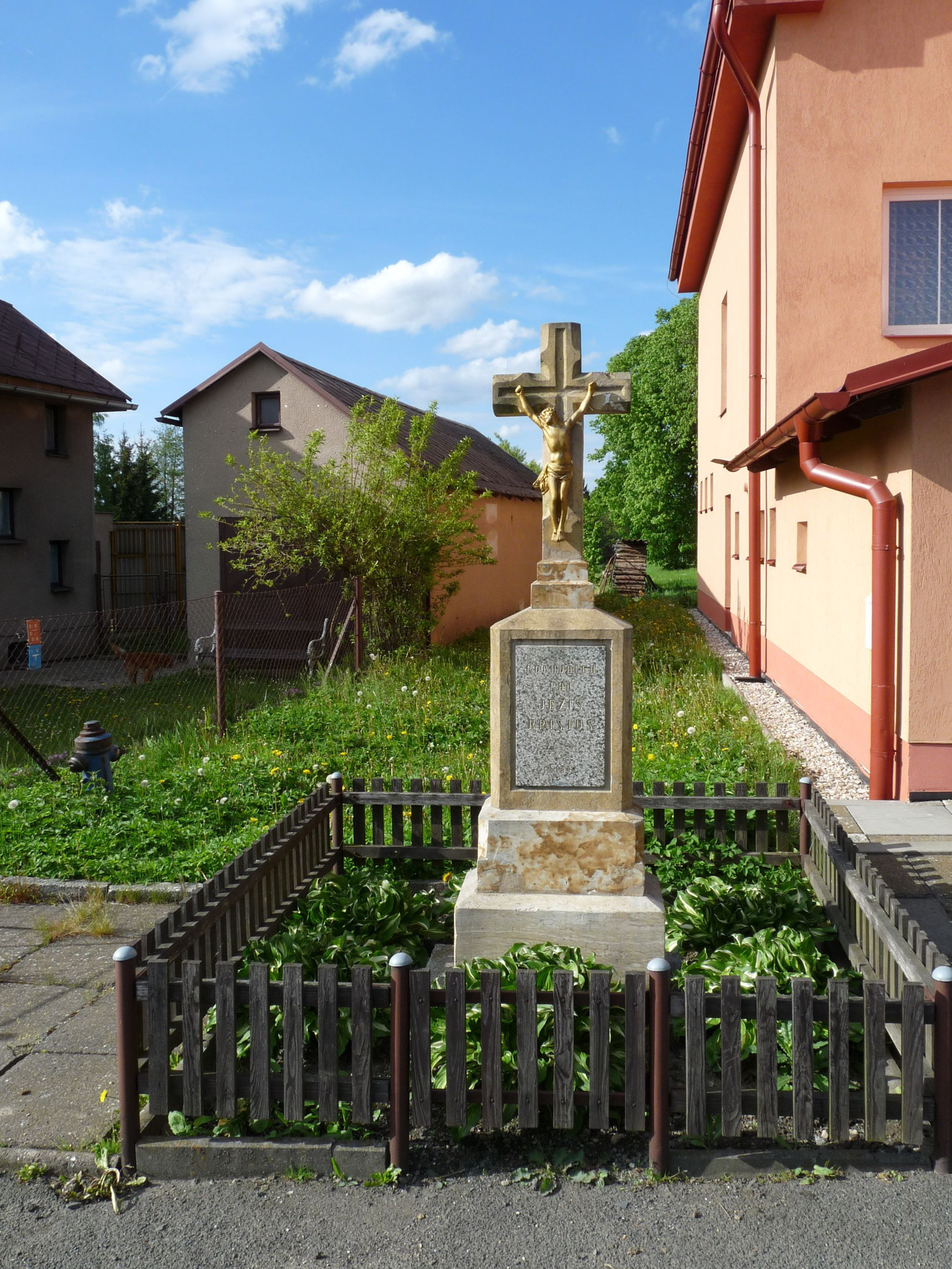 Wayside cross in the village of Příjemky, Havlíčkův Brod District, Vysočina Region, Czech Republic.